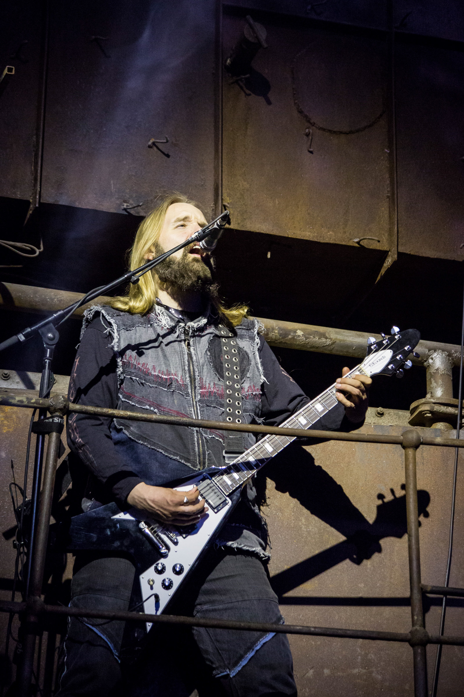 Metsatöll performing at the opening ceremony